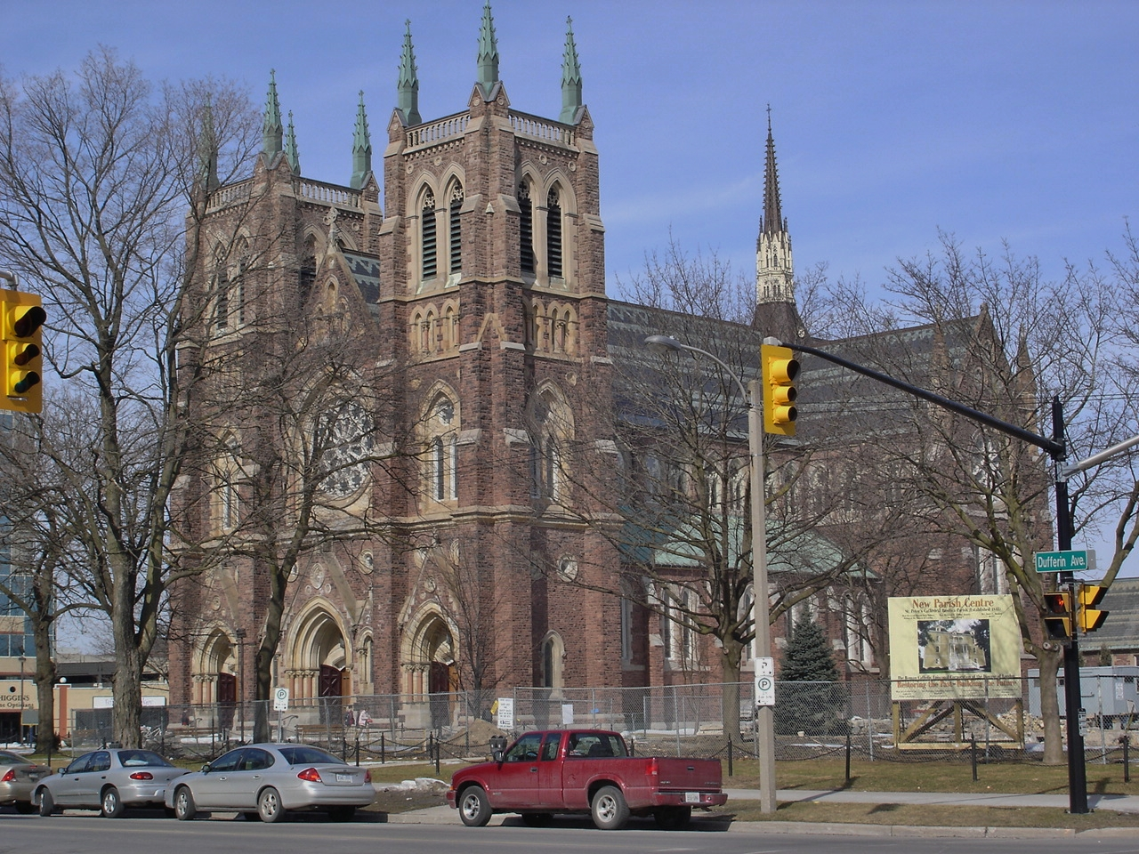 The Diocese of London was created in 1856 and Bishop Pierre-Adolphe Pinsoneault selected St. Lawrence as his cathedral renaming the church St. Peter's. In 1859, Bishop Pinsoneault moved the seat to Windsor where it remained until 1868 when Bishop John Walsh, Pinsoneault's successor, moved it back to London.[1] Bishop Walsh felt that the diocese should have a cathedral that was a true monument to its people. He selected Joseph Connolly as architect [2] and construction began in July 1880.[3] The structure was built in a 13th-century French French Gothic Revival style between 1880 and 1885. [4] The Cathedral was dedicated on 28 June 1885. The first stained glass windows were added in 1889 but the interior decoration was not completed until 1926. The Casavant organ was also installed in that year. In 1958, the twin towers on the facade, Lady Chapel and sacristy were added, stained glass windows were installed in the narthex and additional interior painting and decoration completed. St. Peter's was raised to the status of a minor basilica on 13 December 1961 by Pope John XXIII. The current bishop of the Diocese of London is the Most Reverend Ronald P. Fabbro.